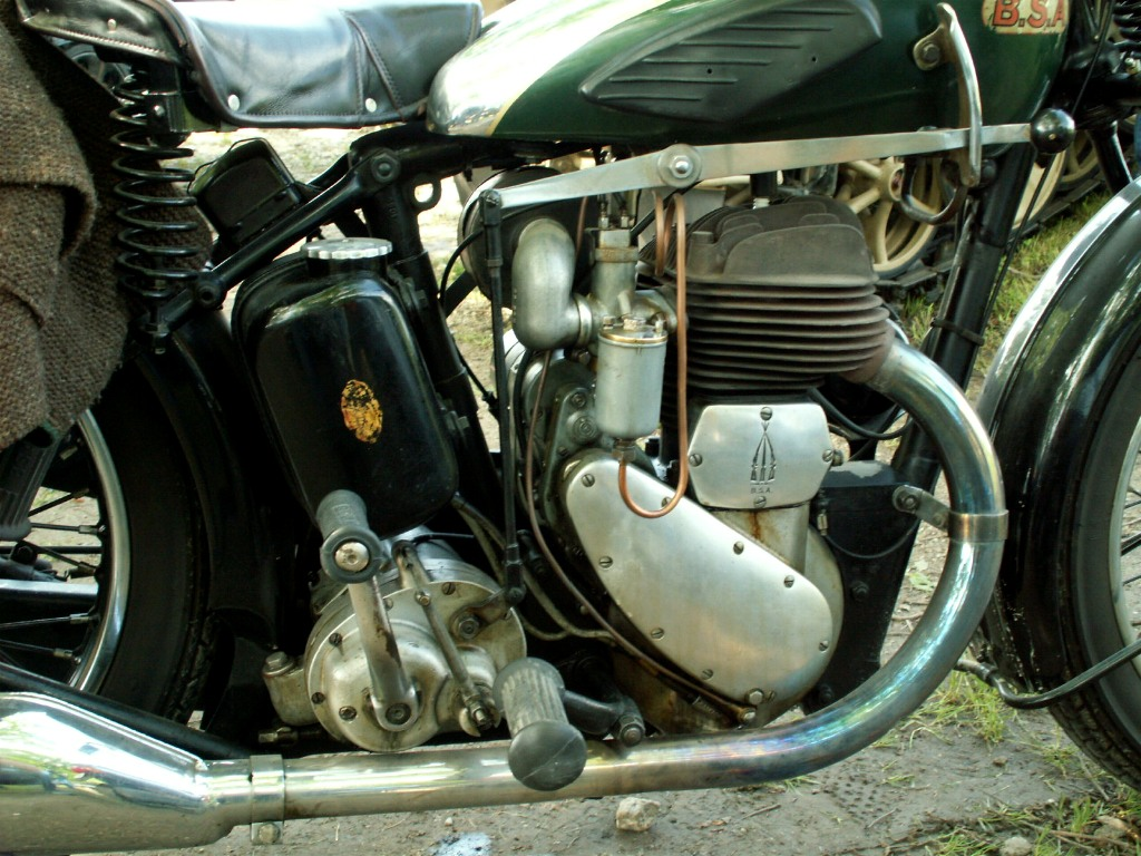 BSA motorcycle